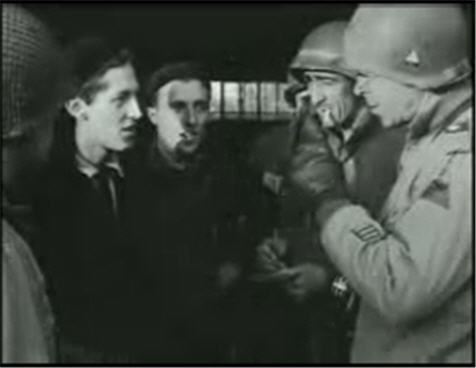 U.S. forces liberated the Dora-Mittelbau (Nordhausen) concentration camp in April 1945. In the original film at the US Archives, medics and soldiers of the U.S. Third Armored Division evacuate sick and dying survivors of the camp, while Brigadier Brigadier General Truman E. Beidinot (commander of the Brigade which found the camp) and his officers question locals.